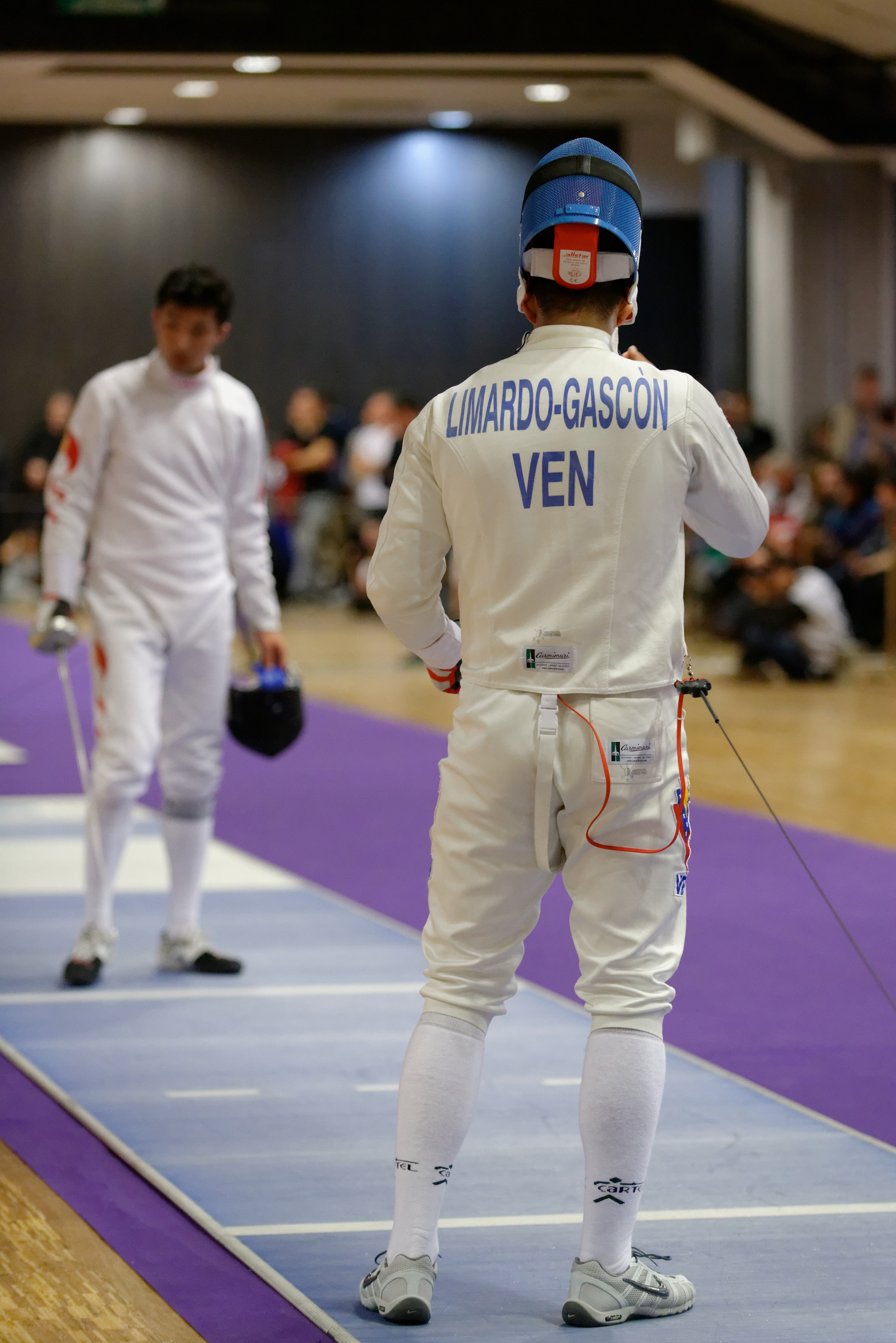 China's Jiao Yunlong (facing) fences against Rubén Limardo Gascón of Venezuela (from the back) in the T32 in the Challenge Réseau Ferré de France–Trophée Monal 2013, a men's épée FIE World Cup competition. Louvre Carrousel, Paris.